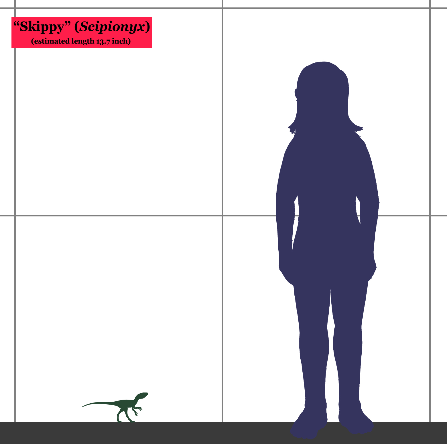 Size comparison between the Scipionyx samniticus holotype (also known as "Skippy", "Ciro" and "Doggy") and a human."Skippy" was a hatchling at the time of death, so we can't know for sure how large an adult Scipionyx could have been. References The fossil of "Skippy". Scipionyx skull and chest. Men showing up the fossil slab of Scipionyx. Fossil slab of Scipionyx. Diagram of Scipionyx skeleton with a scale bar.